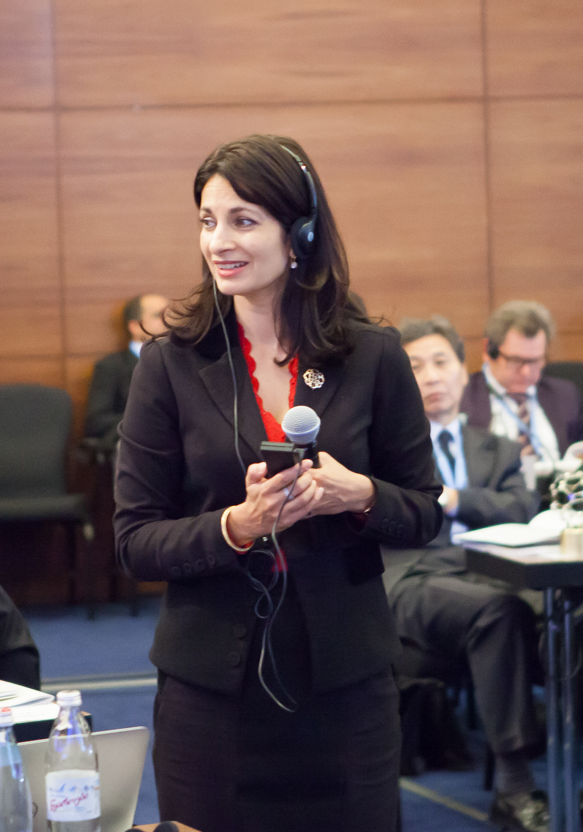 Photograph taken at the ITU WTIS (World Telecommunication/ICT Indicators Symposium) conference, 2014. Uploader's description: In an increasingly digitized world, vast amounts of data have the potential to produce new and insightful information, and there is a growing debate on how the public and private sector can maximize the benefits of big data. One of the richest sources of big data is the data captured by the use of ICTs. ICT-related big data are helping to produce development insights of relevance to public policy, such as understanding socio-economic wellbeing and poverty, as well as improving the monitoring of the information society. This panel will examine opportunities and challenges in using big data from the ICT industry to complement existing ICT indicators. It will present the new ITU Big Data Strategy and discuss the role of different players, including the ICT industry, governments, and international organisations. The session will address the following questions: How can big data complement current information society measurements based on official statistics? What is the role of the ICT industry as key source of big data? How can the private and public sector cooperate to maximize the benefit of using big data? What should international organizations such as ITU do to encompass big data sources in their statistical work? Moderator: Nisha Pillai, Journalist and Facilitator Keynote speaker: Reg Brennenraedts, Partner and Senior Consultant, Dialogic